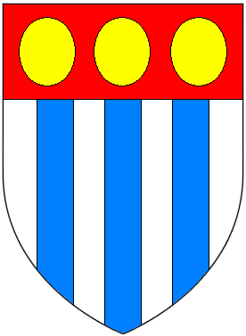 Arms of Donnington (as seen for Margaret Donnington of Hengrave Hall, Suffolk): Argent, three pallets azure on a chief gules three bezants (Rokewood, John Gage, History and Antiquities of Suffolk: Thingoe Hundred, 1838, pp.218-9 [1])